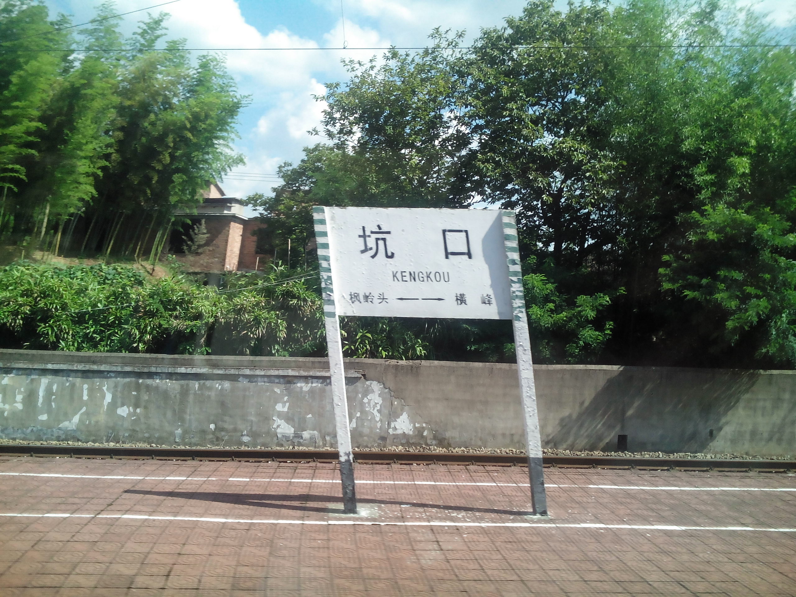 Kengkou Railway Station